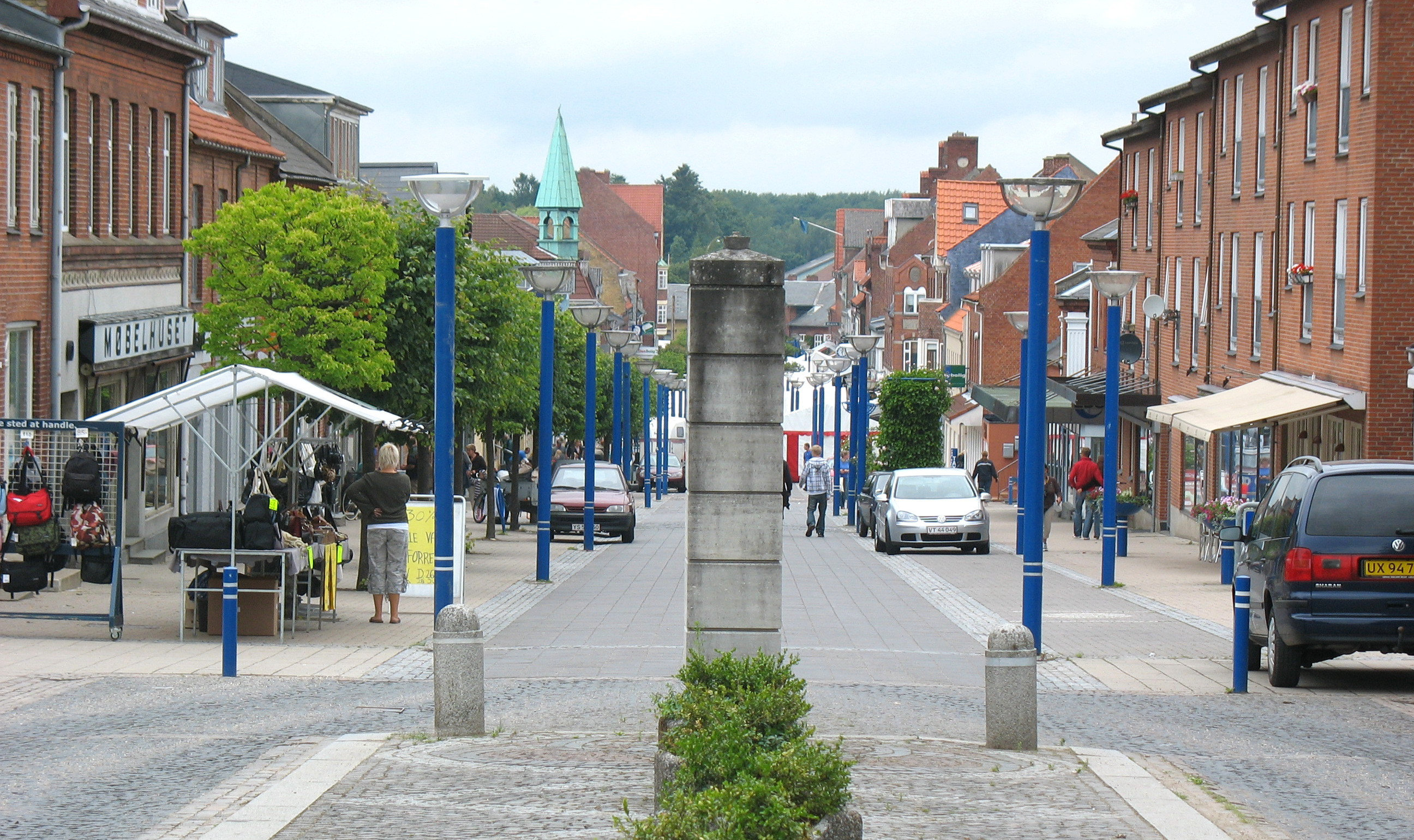 The pedestrian street at the town "Haslev" located in South Zealand in east Denmark.